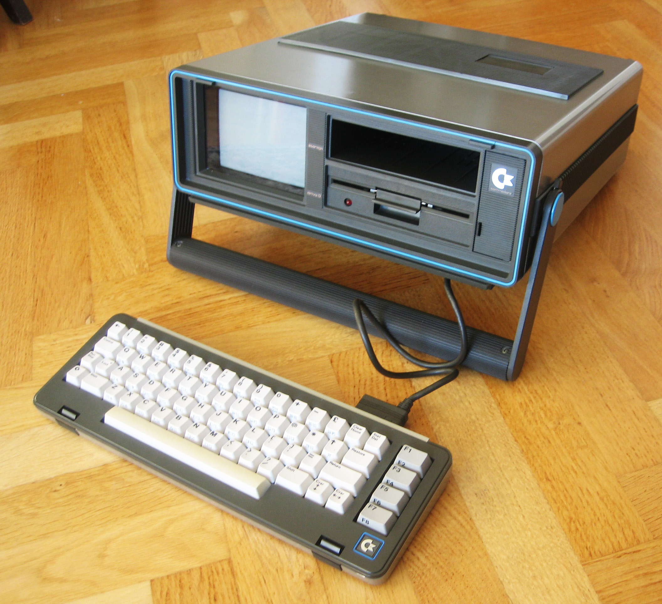 Commodore SX-64, front. Feel free to modify the picture to add a white/transparent background, or otherwise enhance the picture.